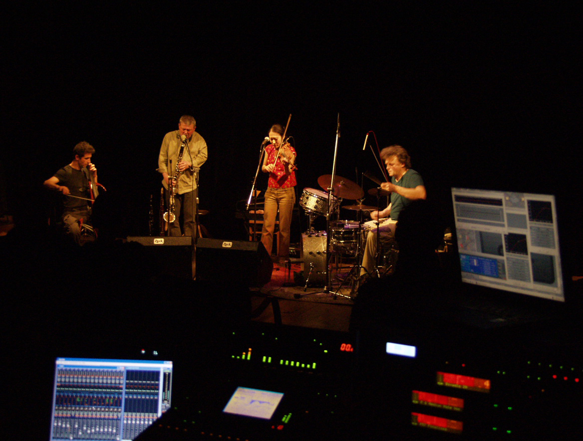 the concert of the French band Volapük in Divadlo 29 (Theater 29) in Pardubice, Czech Republic.